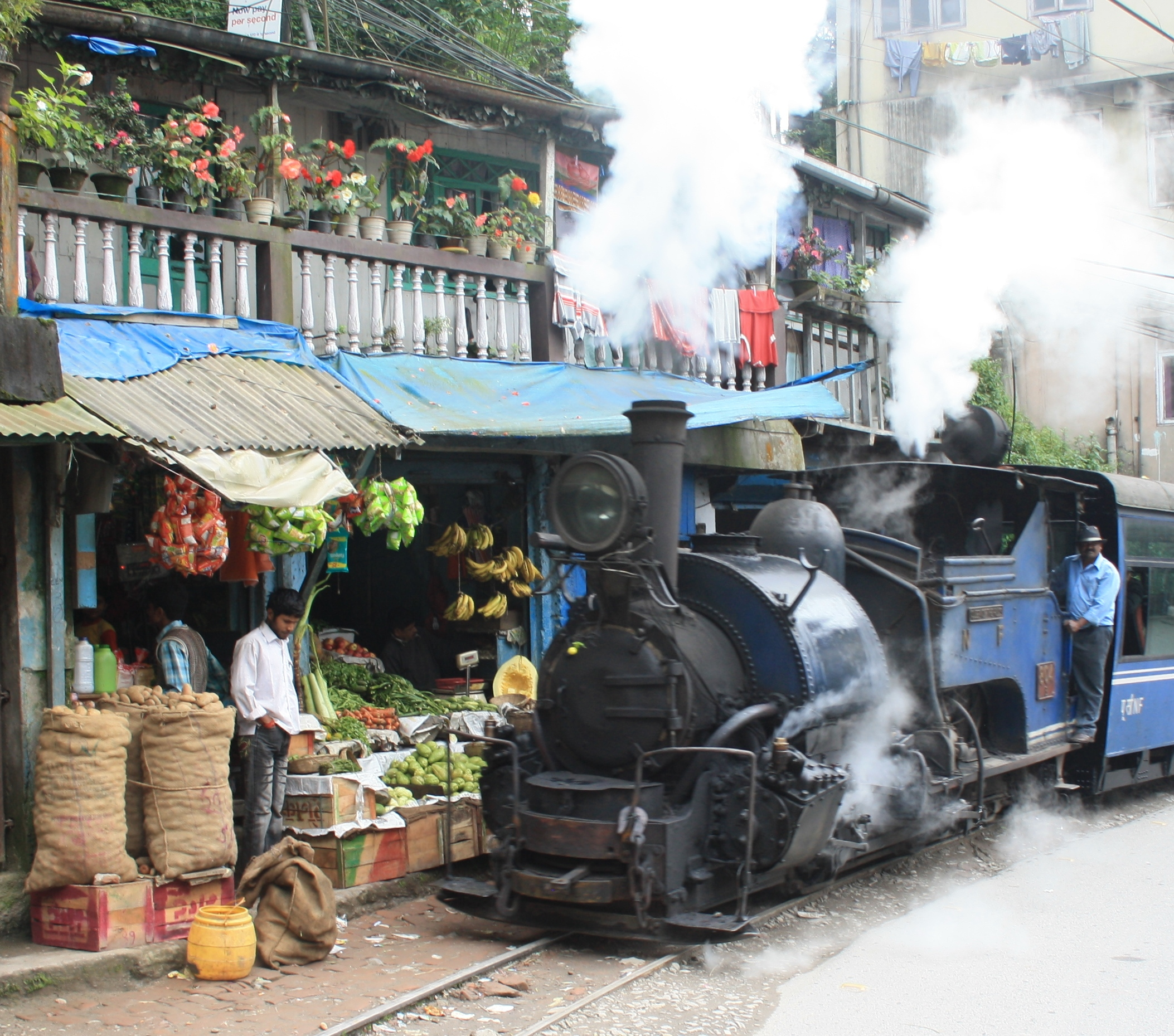 A steam train to Darjeeling about 5 minutes before arriving at its final destination, passing by a fruits and vegetable shop.